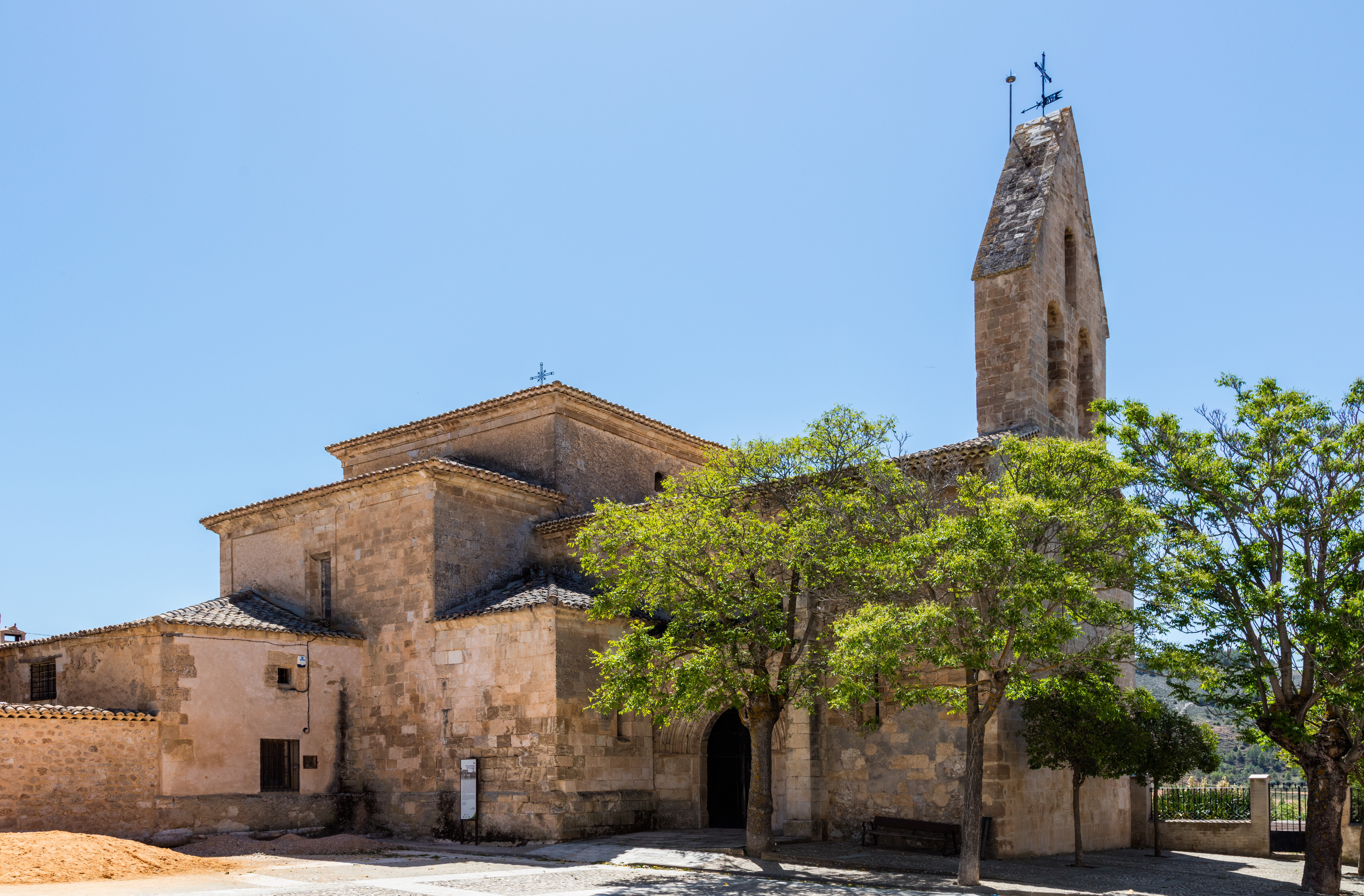 Church of the Assumption, Albalate de las Nogueras, Cuenca, Spain